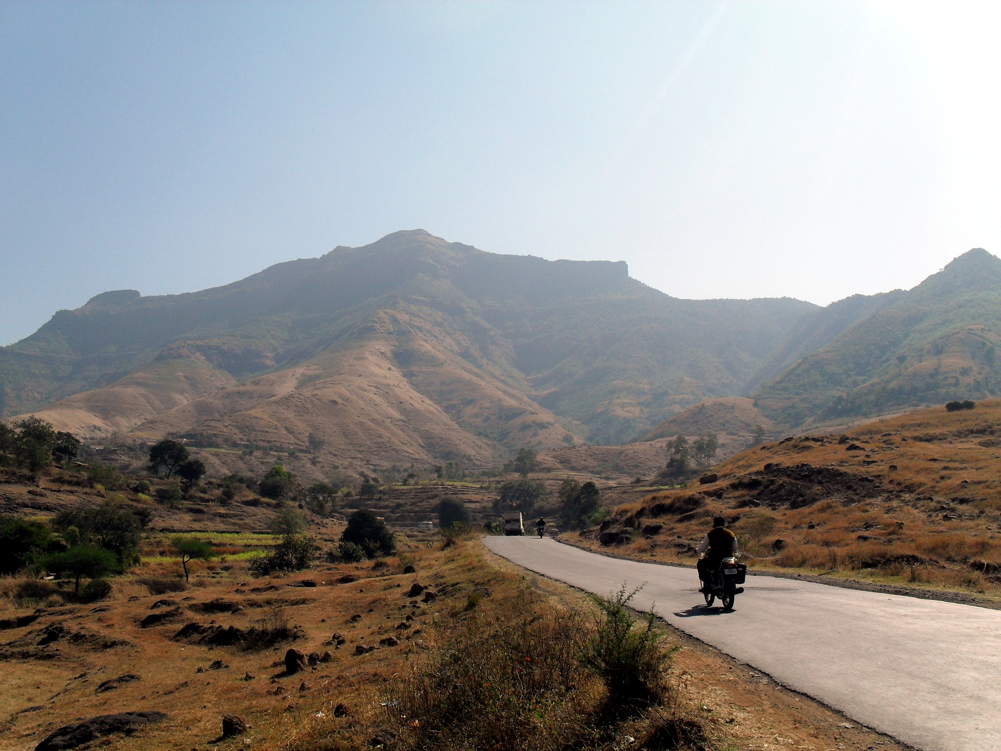 Purandar fort in India